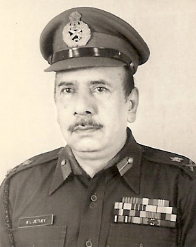 Portrait of Ranjit Lal Jetley.